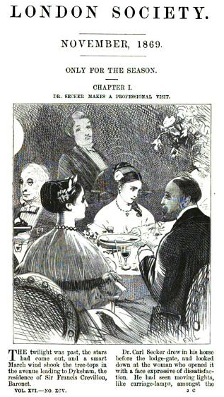 London Society v.16 no.95